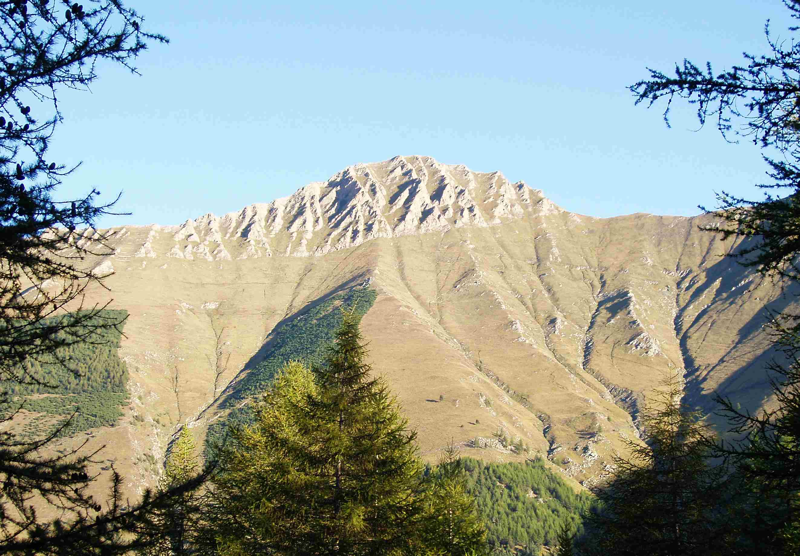 Mount Pelvo (TO, Italy): southern slope